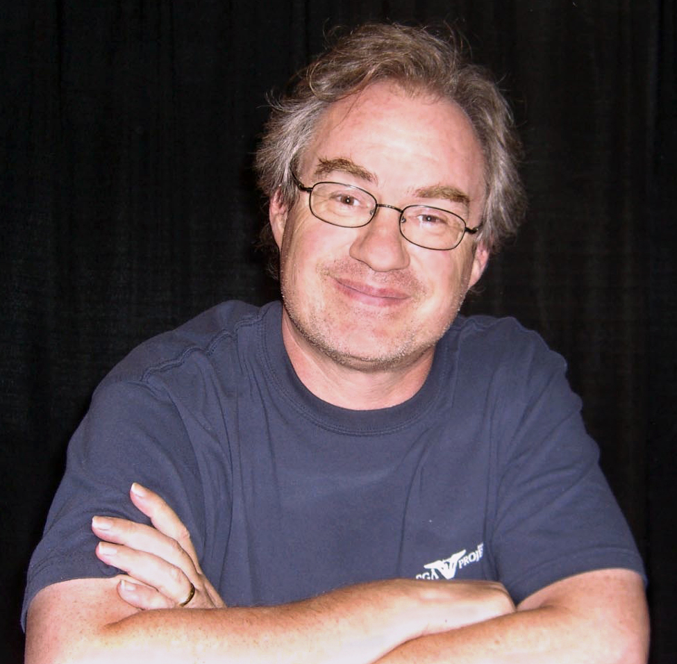 Actor John Billingsley at the Big Apple Convention in Manhattan. Photographed by Luigi Novi. This photo may be used, modified and published for any purpose, only if an easily visible credit to the photographer is placed near the photo in each instance in which it is used. (See licensing information below.) Publication of this photo without this proper attribution constitutes copyright infringement. For more information on my photos, you can contact me here.